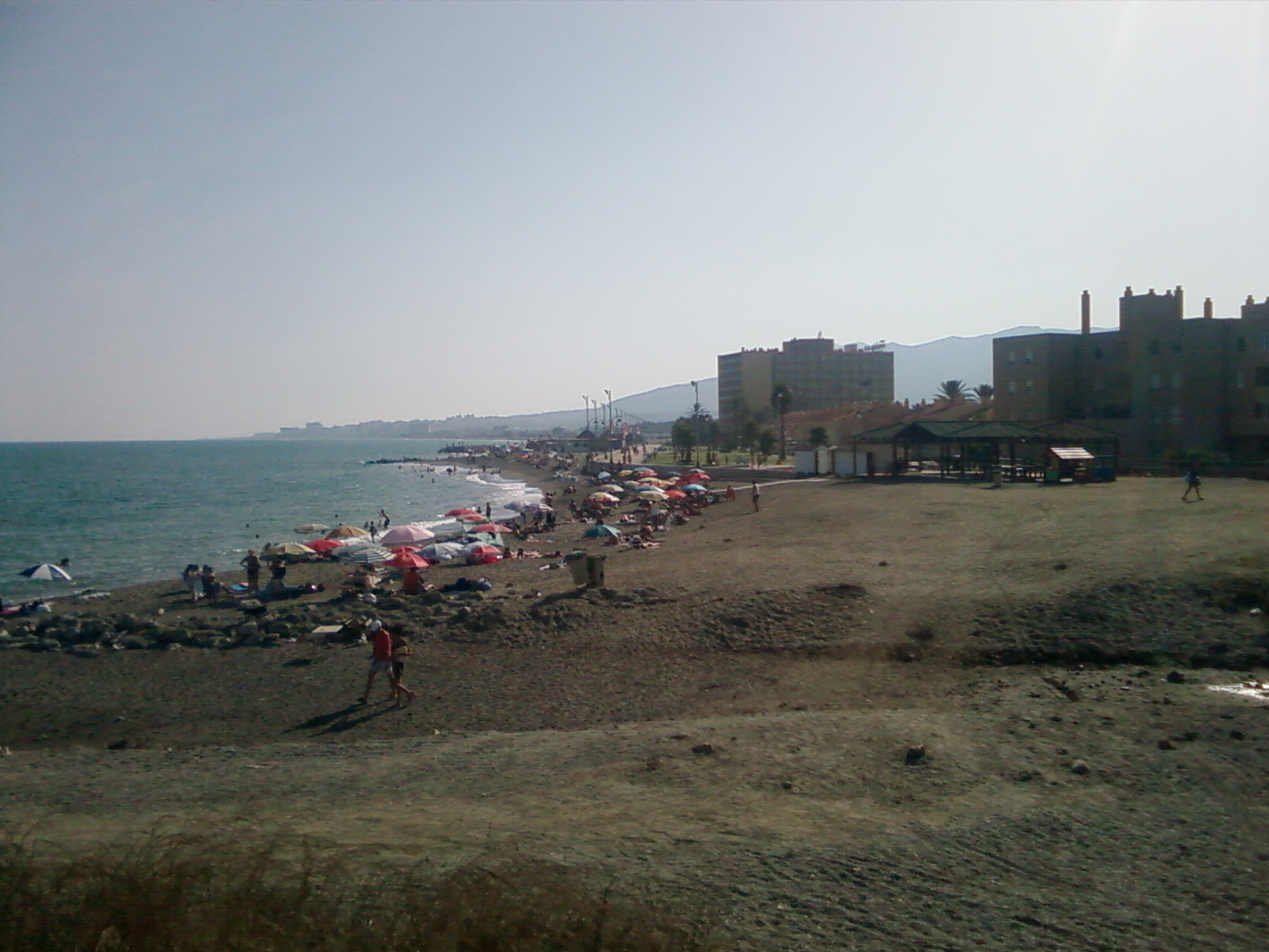 Guadalmar Beach, Málaga, Spain